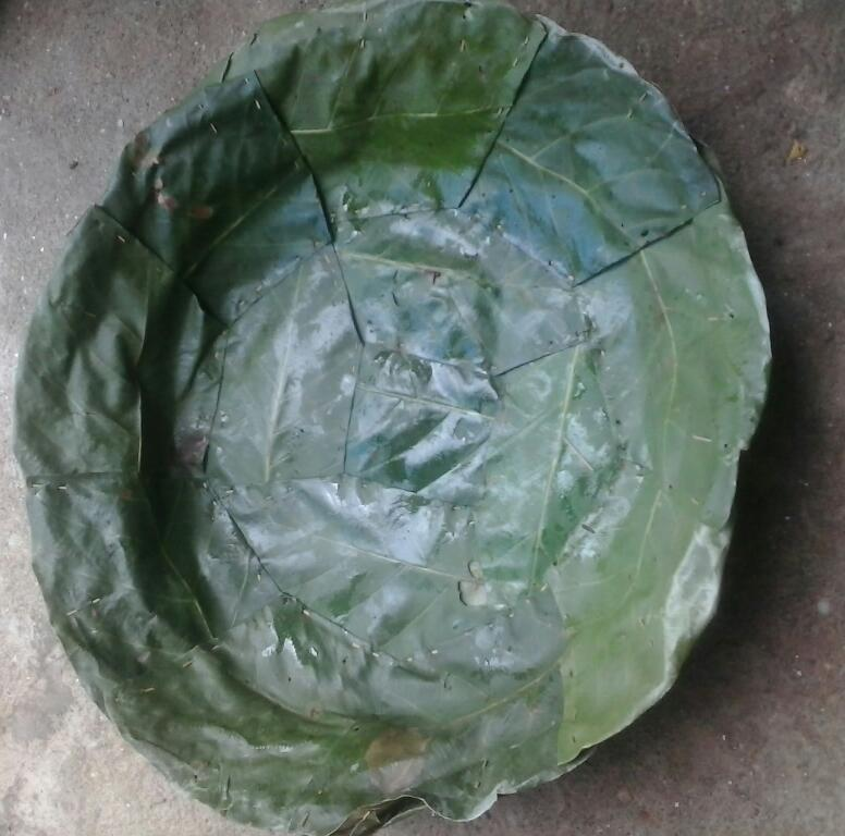 plate made from leaves